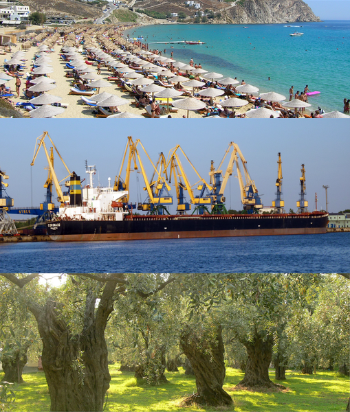 A collage of images of important aspects of the Greek economy. Images used: Olive trees on Thassos.JPG - released under a CC BY 2.5 Coronado(Valetta)vessel-inRiga(Latvia).JPG - released in the Public Domain Elias_Beach_on_Mykonos.JPG - released in the Public Domain